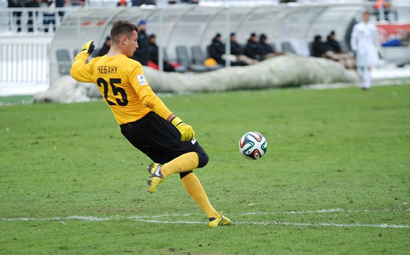 Ilie Cebanu in a match on 26.04.2014